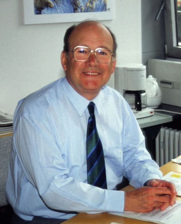 Willi Törnig (German mathematician), Darmstadt,1996